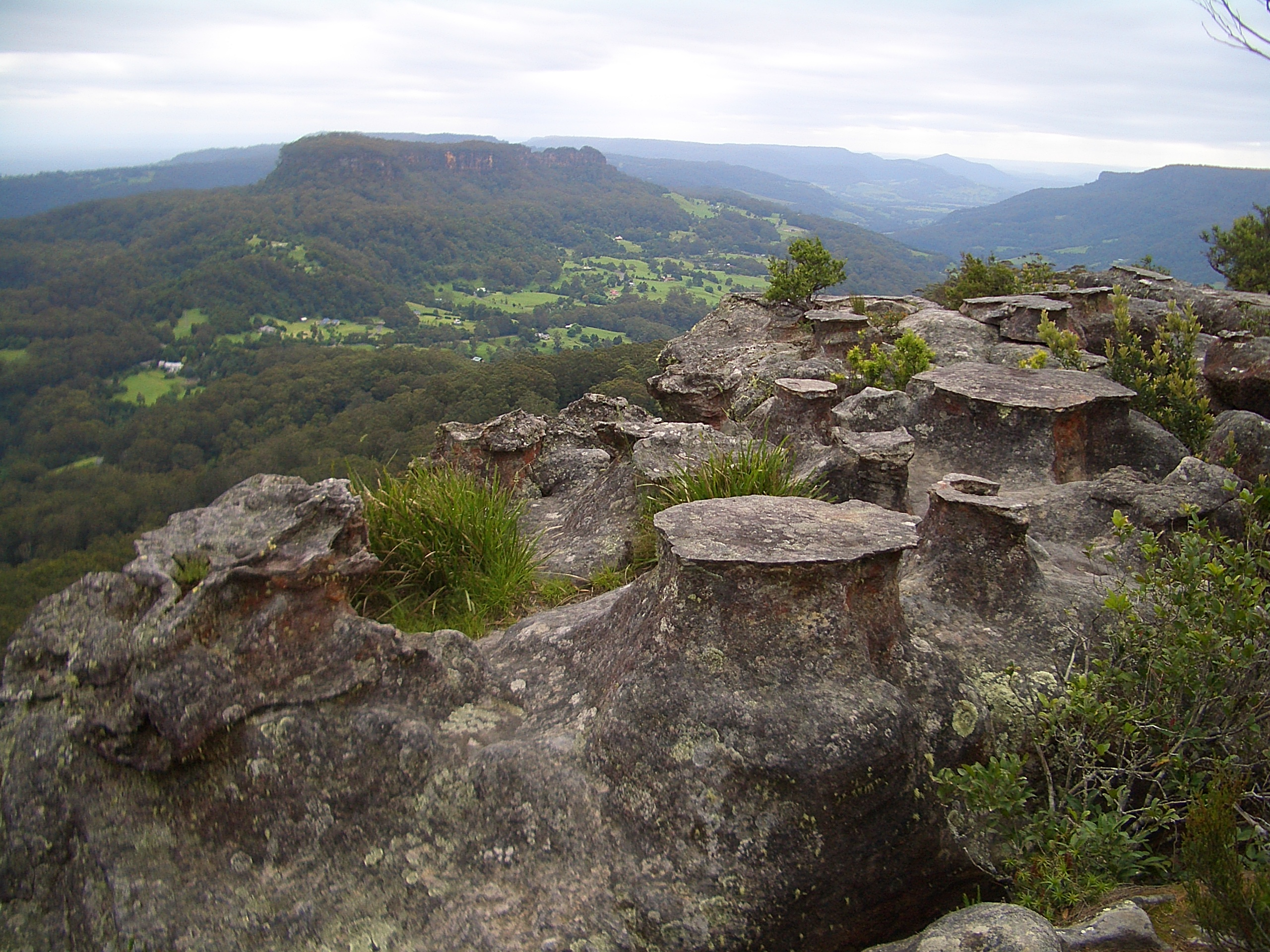 Drawing Room Rocks in Barren Grounds Nature Reserve, near Berry, NSW